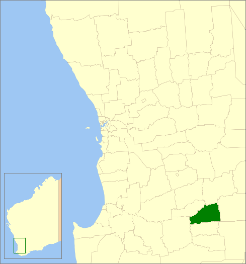 Description=Location of the Local Government Area in Western Australia